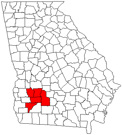 Map of Georgia highlighting the Albany Metropolitan Statistical Area; created with the GIMP. Made by User:Acntx.